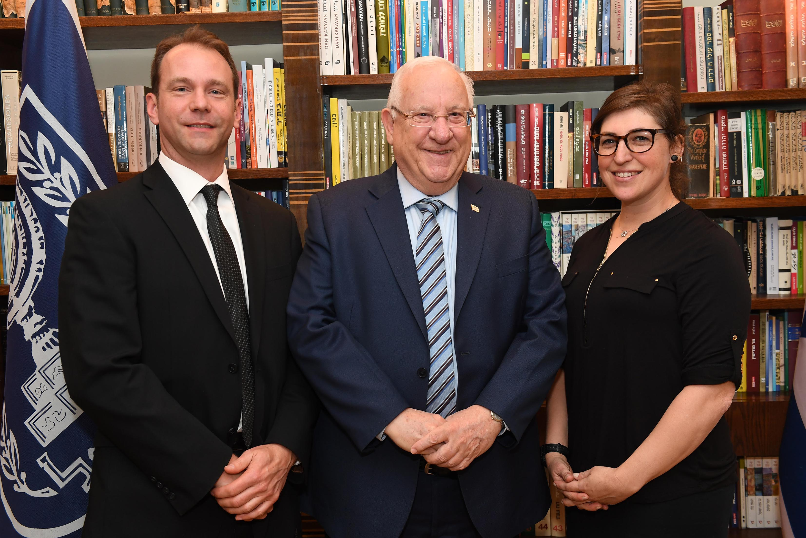 The President of Israel, Reuven Rivlin, hosts the actress Mayim Bialik who visited Israel. Sunday, March 18, 2018. Photo Credit: Mark Neyman / GPO.